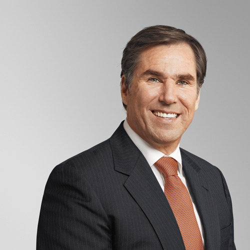 Jan Jenisch is Sika's CEO